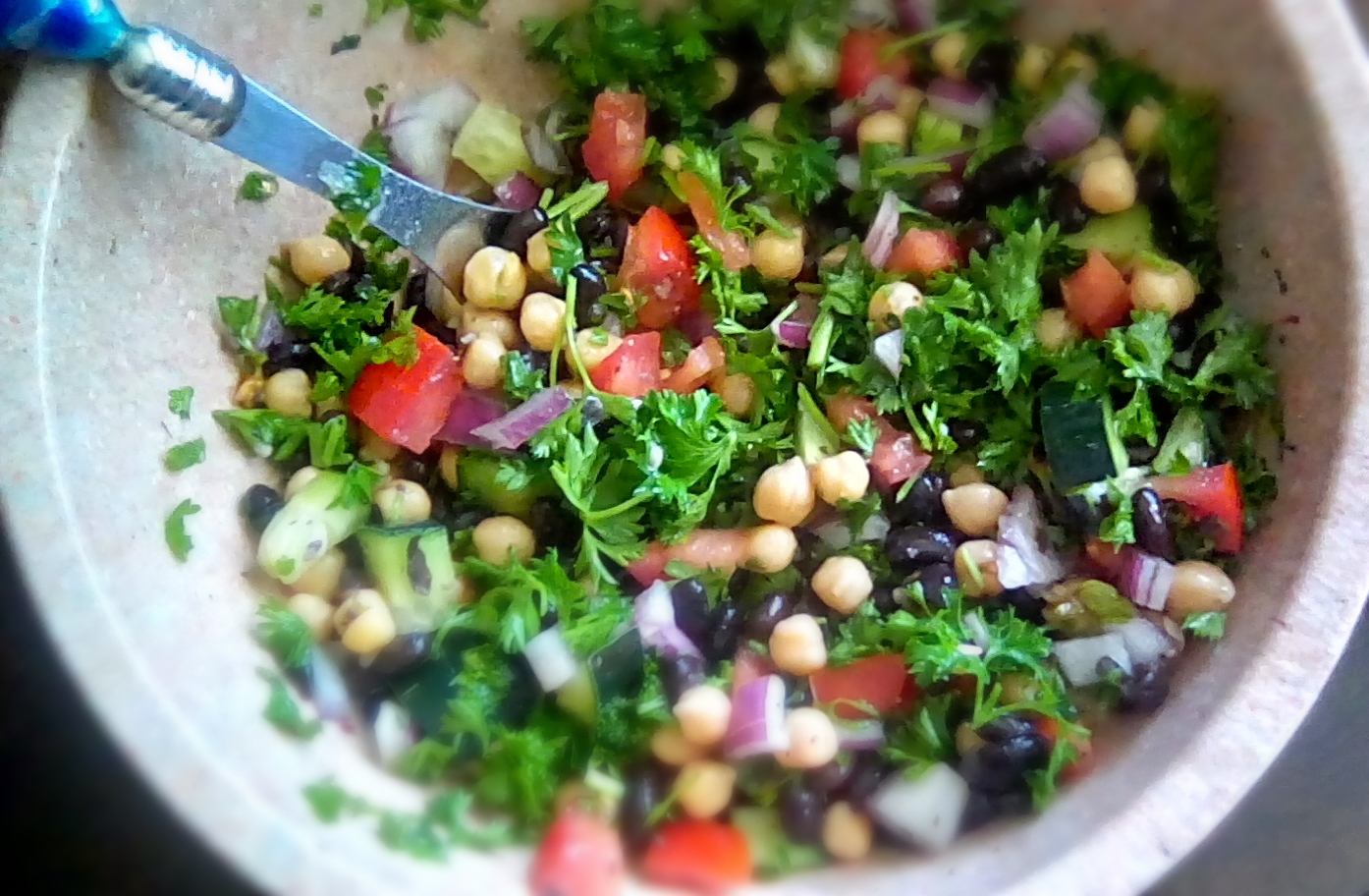 Balela, a Mediterranean bean salad.